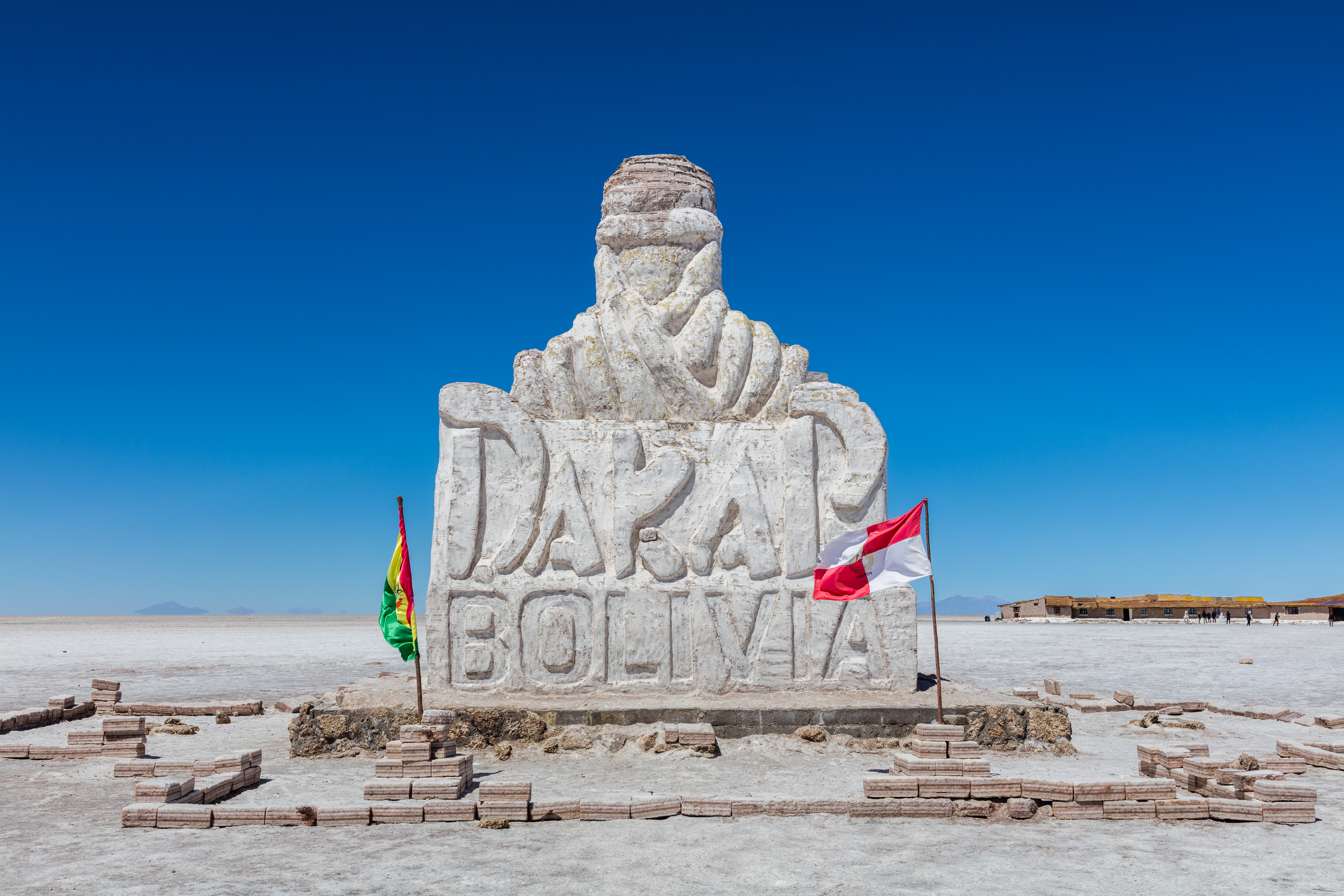 Monument to Dakar, Salar de Uyuni, Bolivia